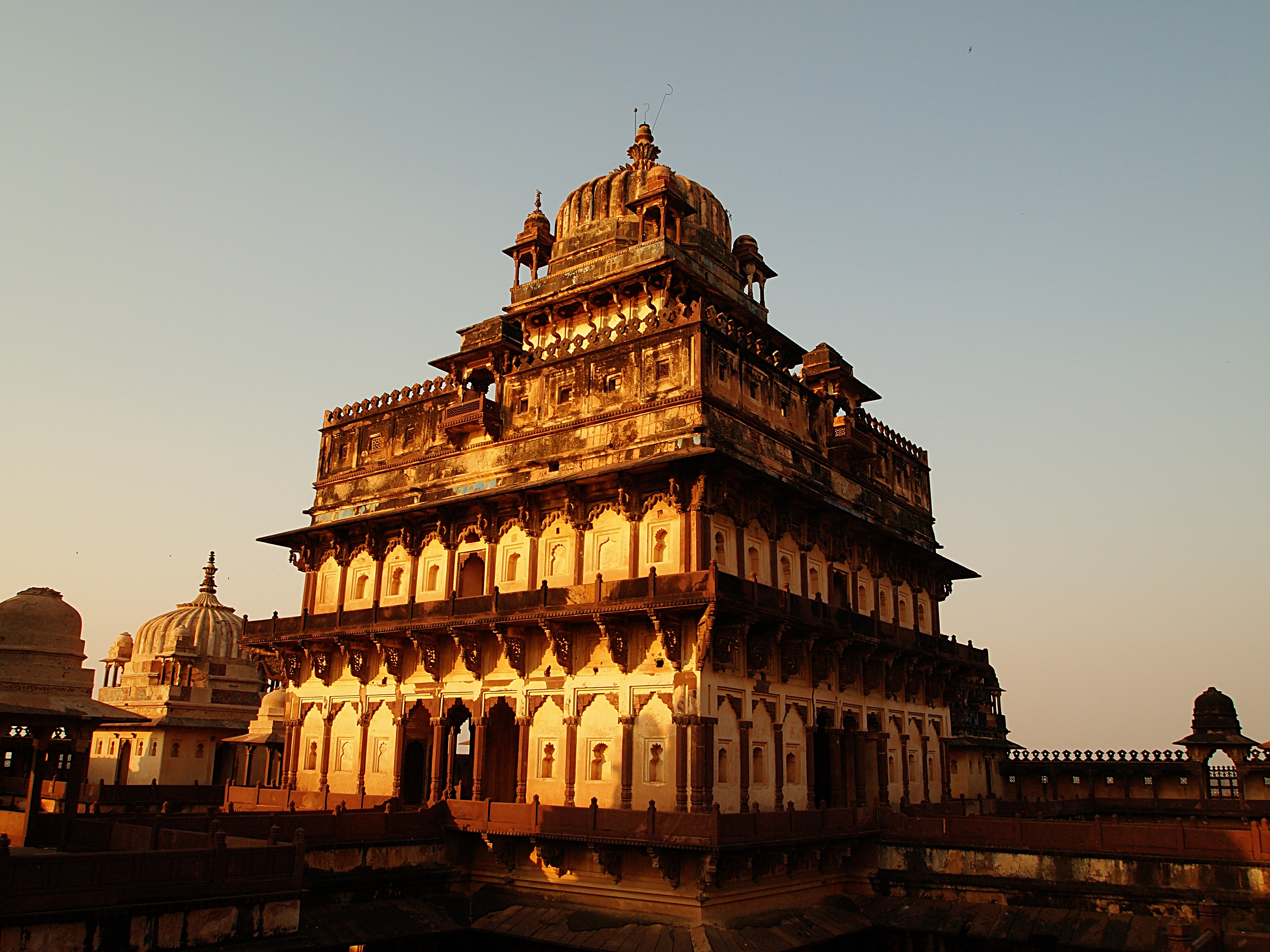 Beer Singh Palace